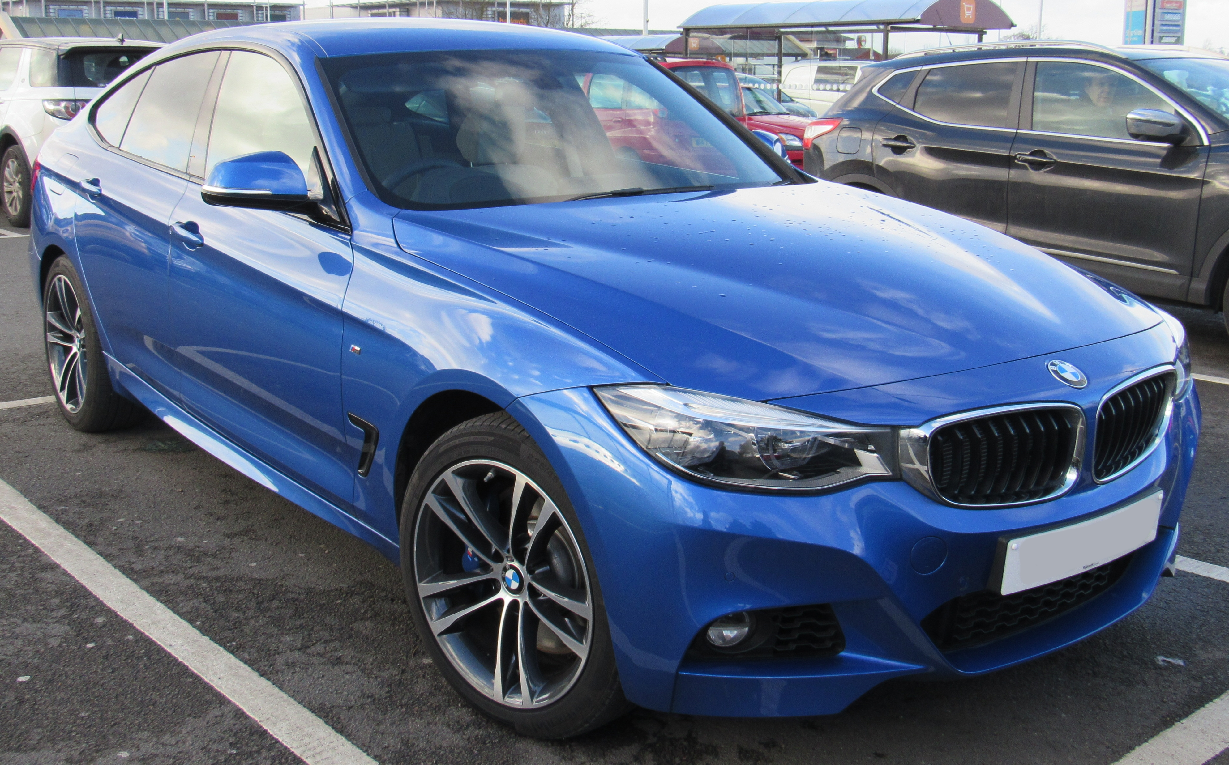 2017 BMW 335d xDrive M Sport GT Automatic 3.0 Taken in Leamington Spa